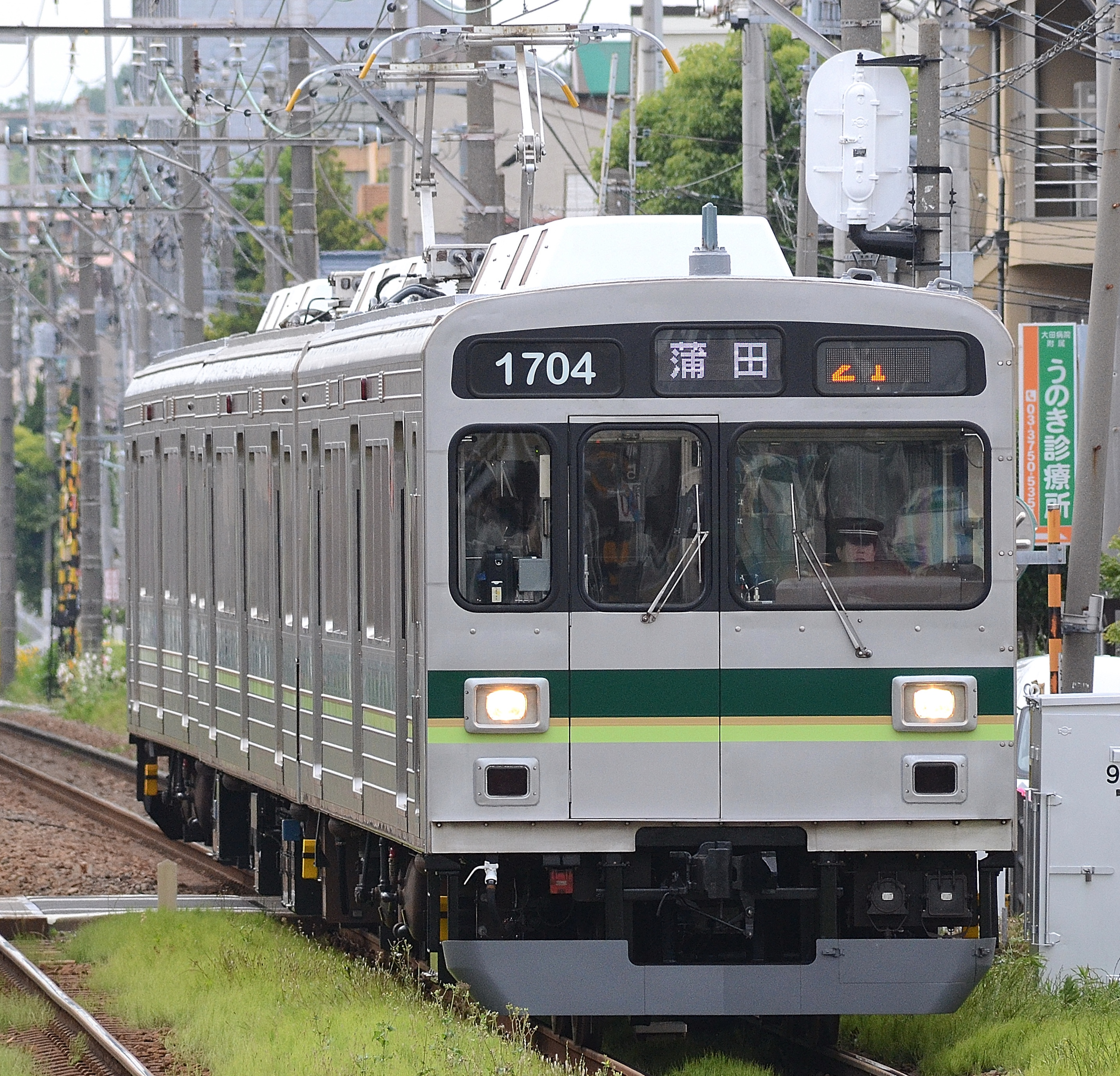 Tokyu 1000-1500 series 3-car EMU set 1504 on a Tamagawa Line service